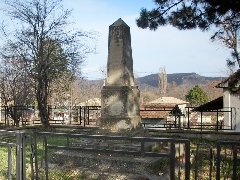 War memorial in village Svetlen, Targovishte District, Bulgaria